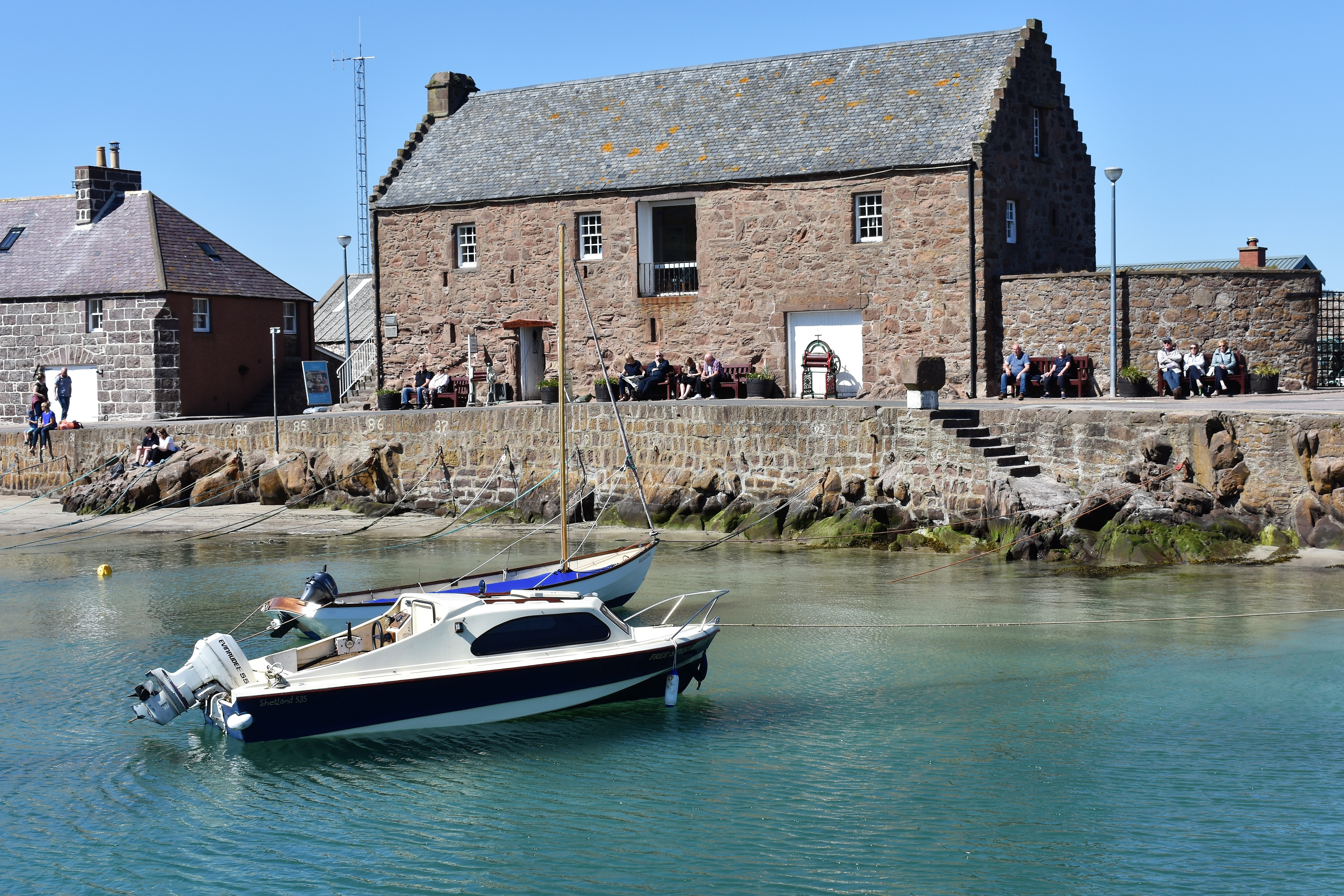 Stonehaven, Old Pier, Old Tolbooth, Sundial Wikidata has entry Q17779825 with data related to this item.